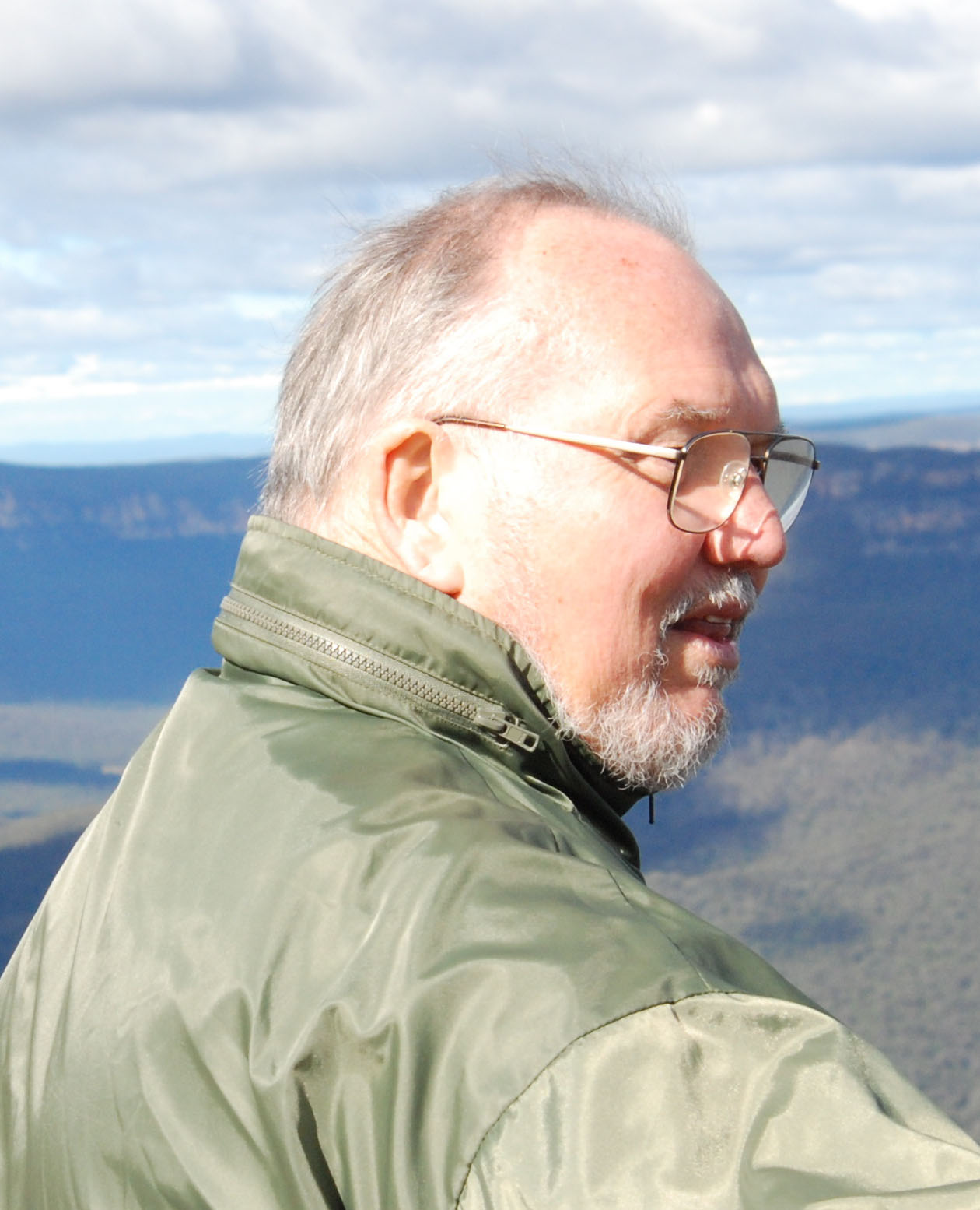 Les Bursill, Australian historian, at Katoomba in the Blue Mountains of New South Wales.